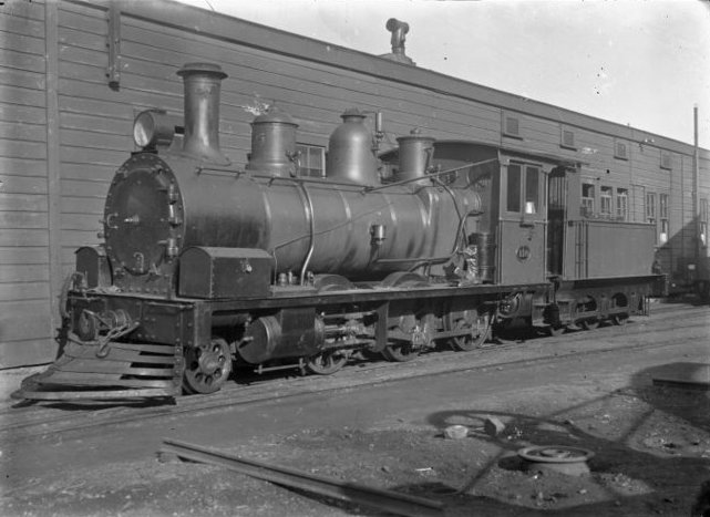 J class steam locomotive, NZR 118, 2-6-0 type.. Godber, Albert Percy, 1875-1949 :Collection of albums, prints and negatives. Ref: APG-0251-1/2-G. Alexander Turnbull Library, Wellington, New Zealand. Built by Neilson & Co., Glasgow, into service July 1880, and written off December 1932.